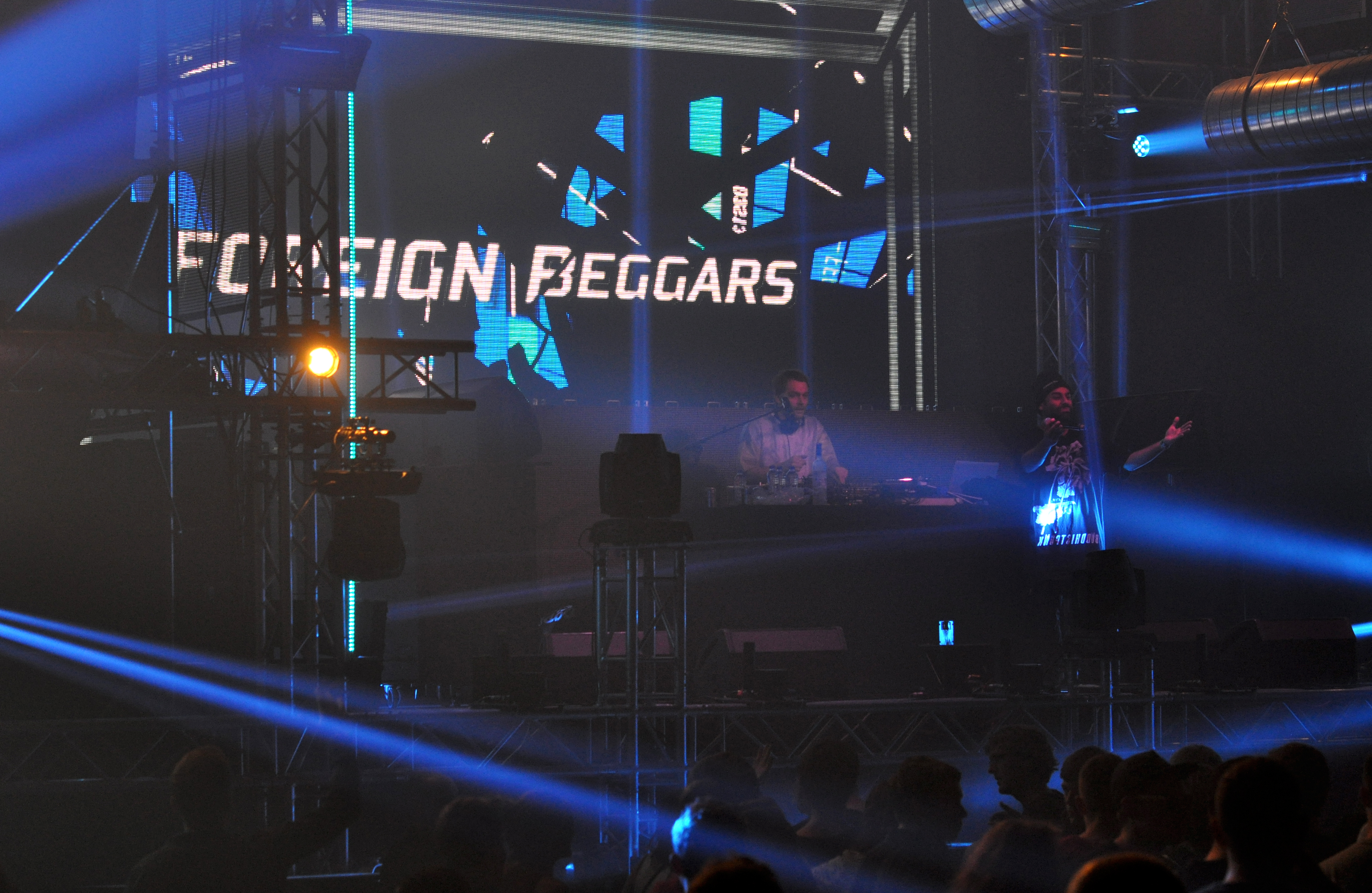 Foreign Beggars at Paaspop 2014